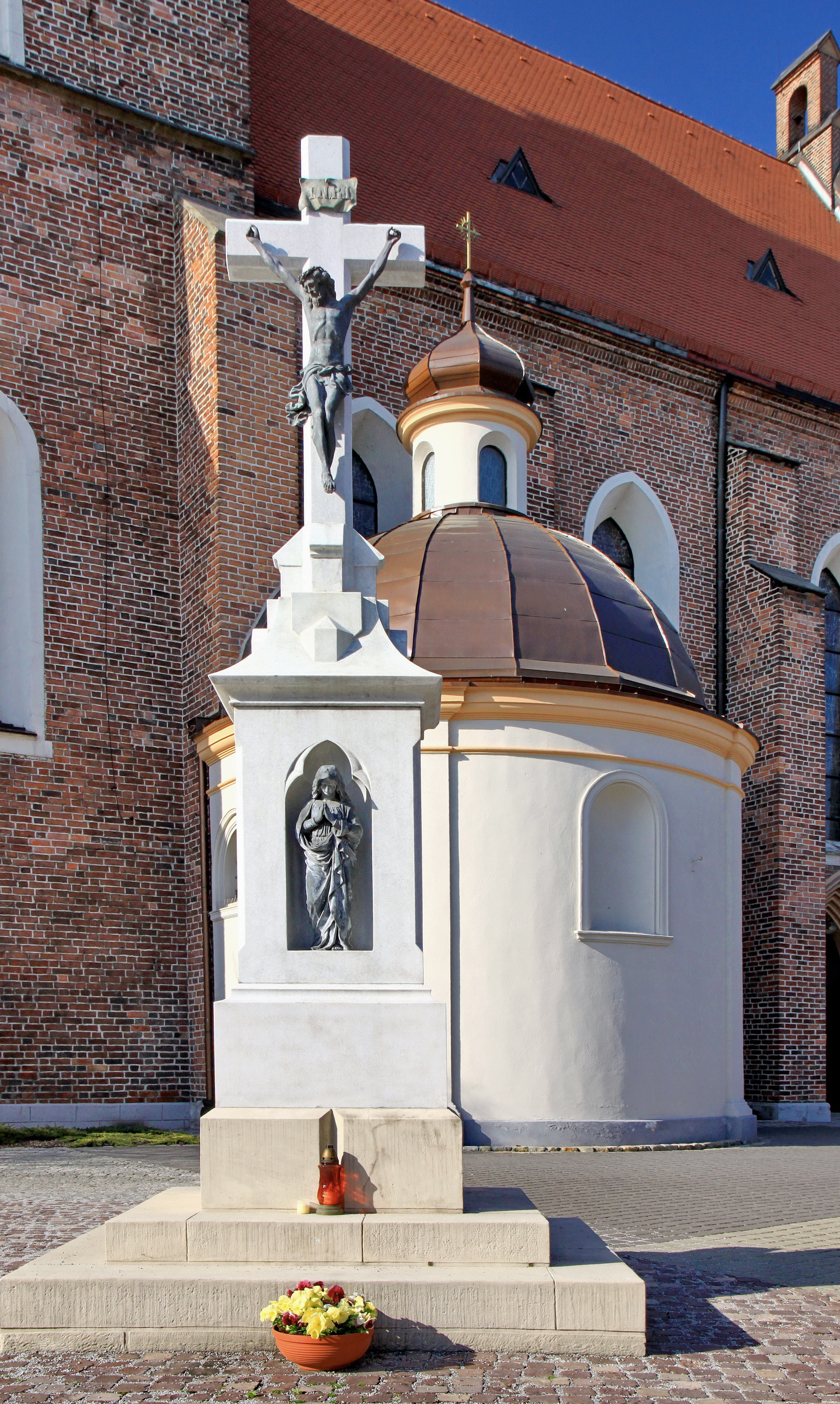 Żory, Saints Philip and James parish church, build in 15th century, 2nd half of 17th century, 1947